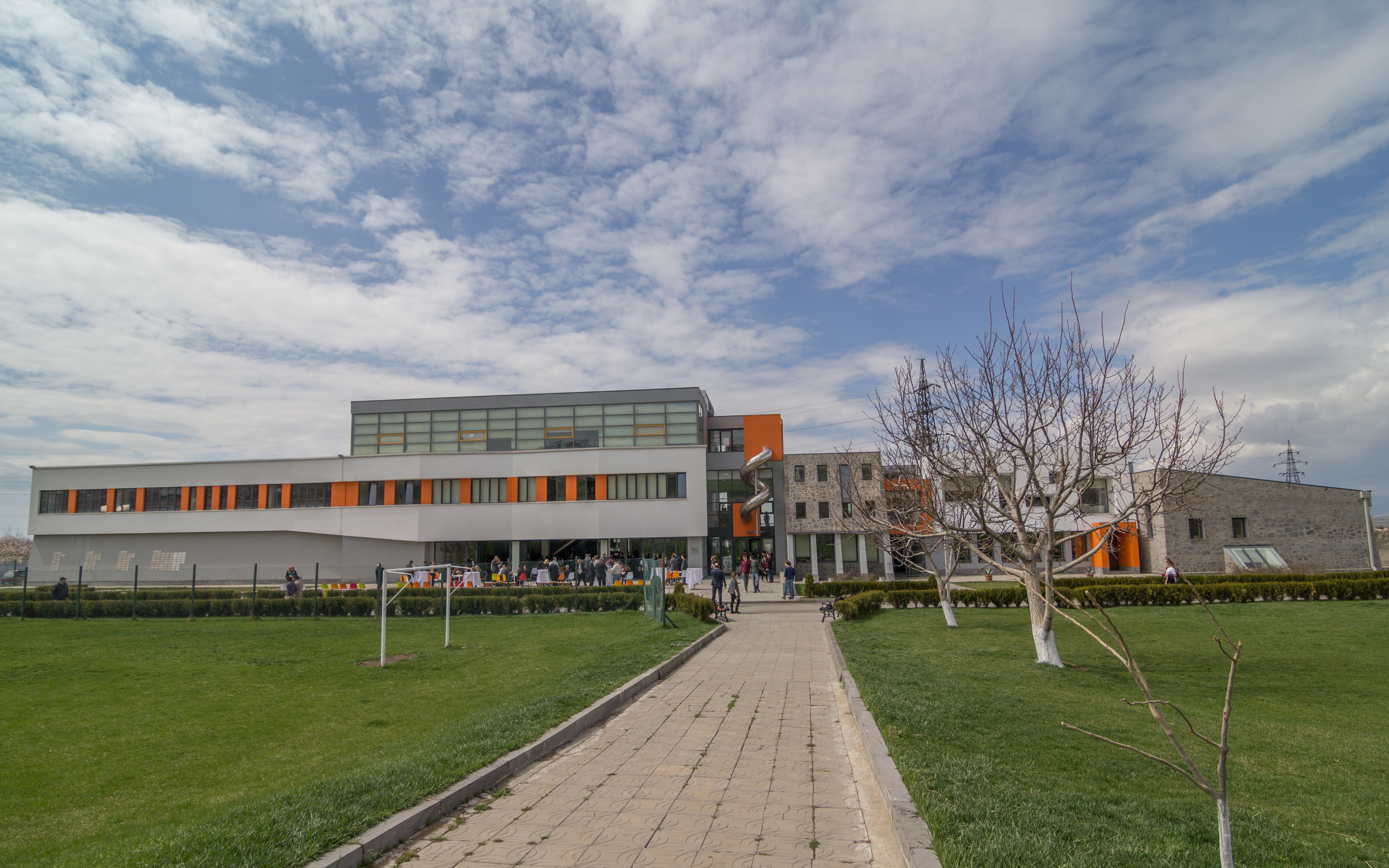 The Ayb High School in Yerevan, Armenia. Taken after the first of three AGBU Talks as part of the Armenian General Benevolent Union's 88th General Assembly.